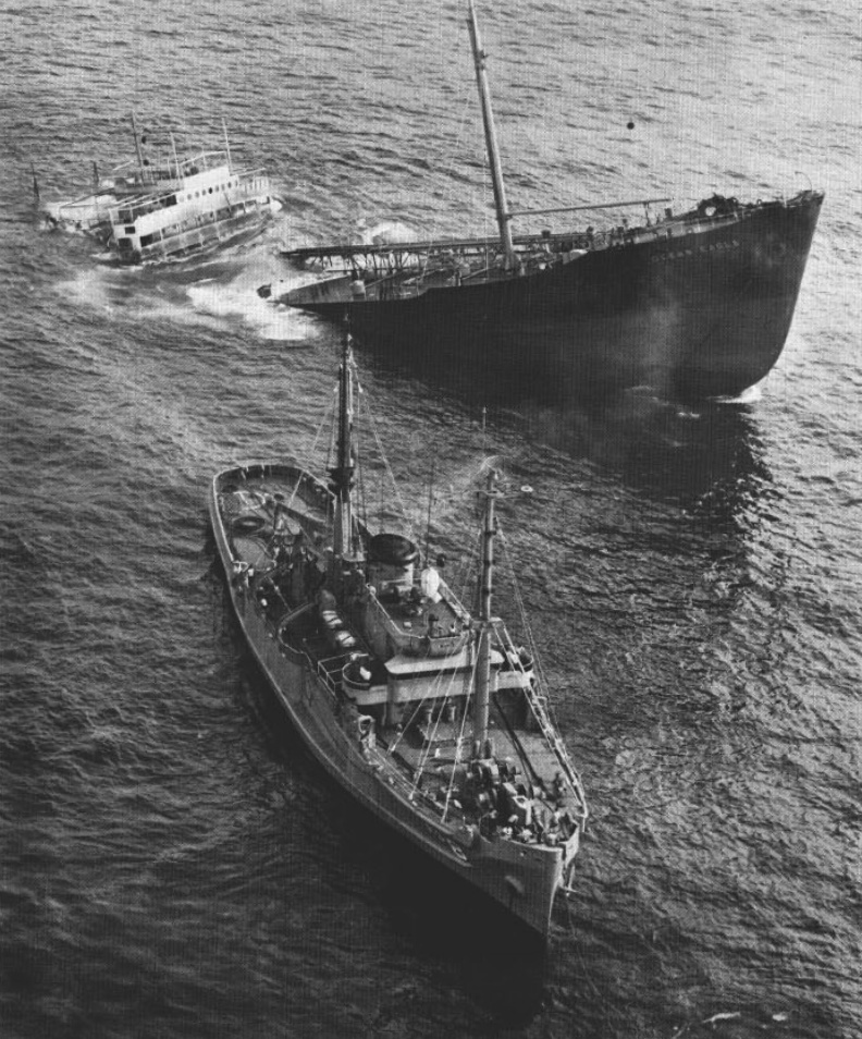 The U.S. Navy rescue and salvage ship USS Preserver (ARS-8) with the sunken tanker Ocean Eagle, in 1968. On the morning of 3 March 1968, the Liberian tanker Ocean Eagle grounded in the harbour of San Juan, Puerto Rico. The vessel broke in two several hours after the grounding, spilling 11,129,000 litres of Venezuelan light crude oil into the harbour. The aft section of the vessel drifted farther into the harbor and grounded, while the forward section was anchored in place. Three days later, U.S. Navy ships tried to tow the forward section out of the harbour. Adverse weather hindered the operation, and eventually drove the forward section farther into the harbour. On 10 March, the forward section broke open in heavy seas and released more oil into the water. By the first week of April, both parts of the tanker were lightered and towed out to sea where they were sunk. (text: NOAA)